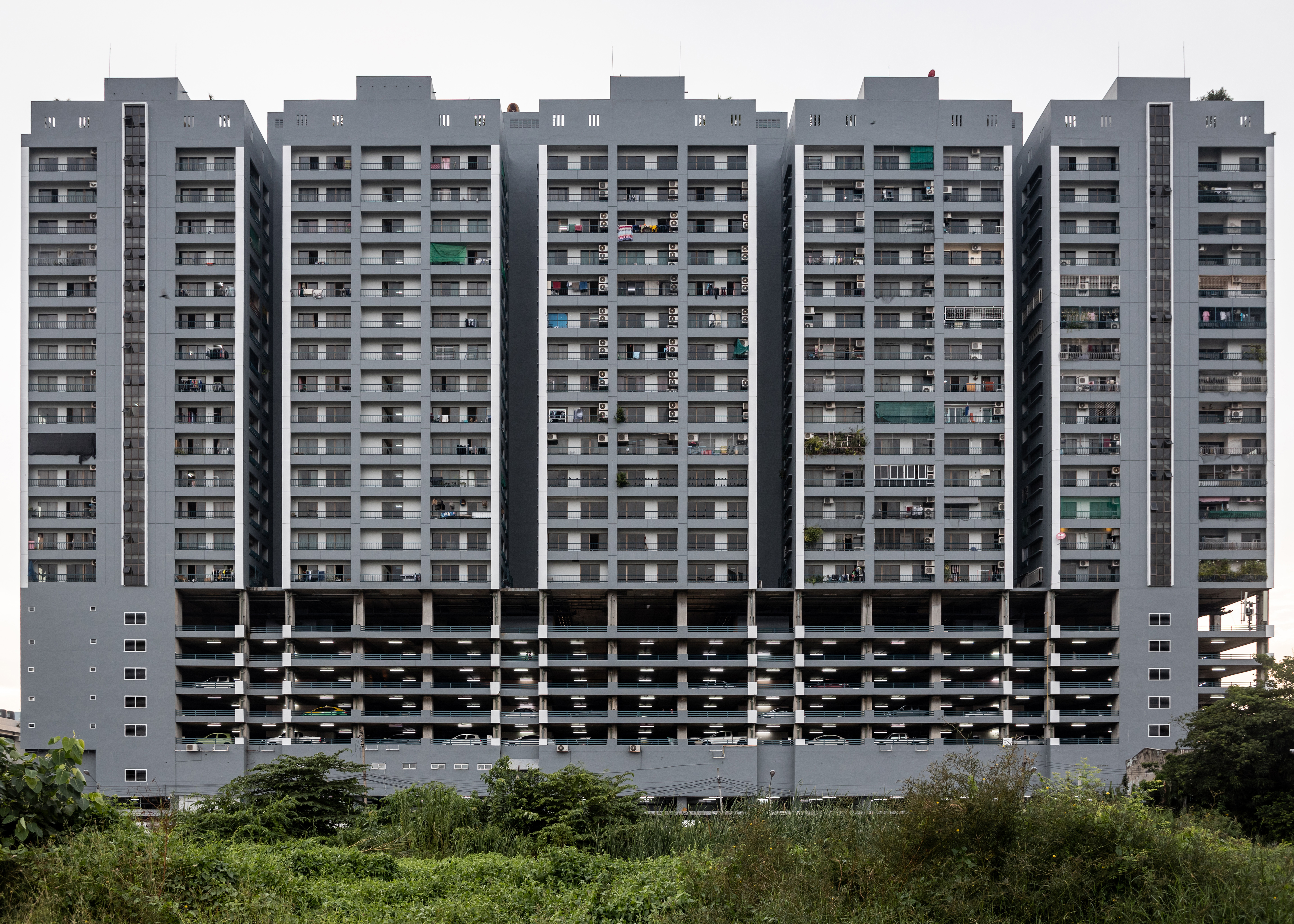 Bangkhae Condotown is a 726-unit residential condominium completed in 1997, located near Bangkae MRT station.